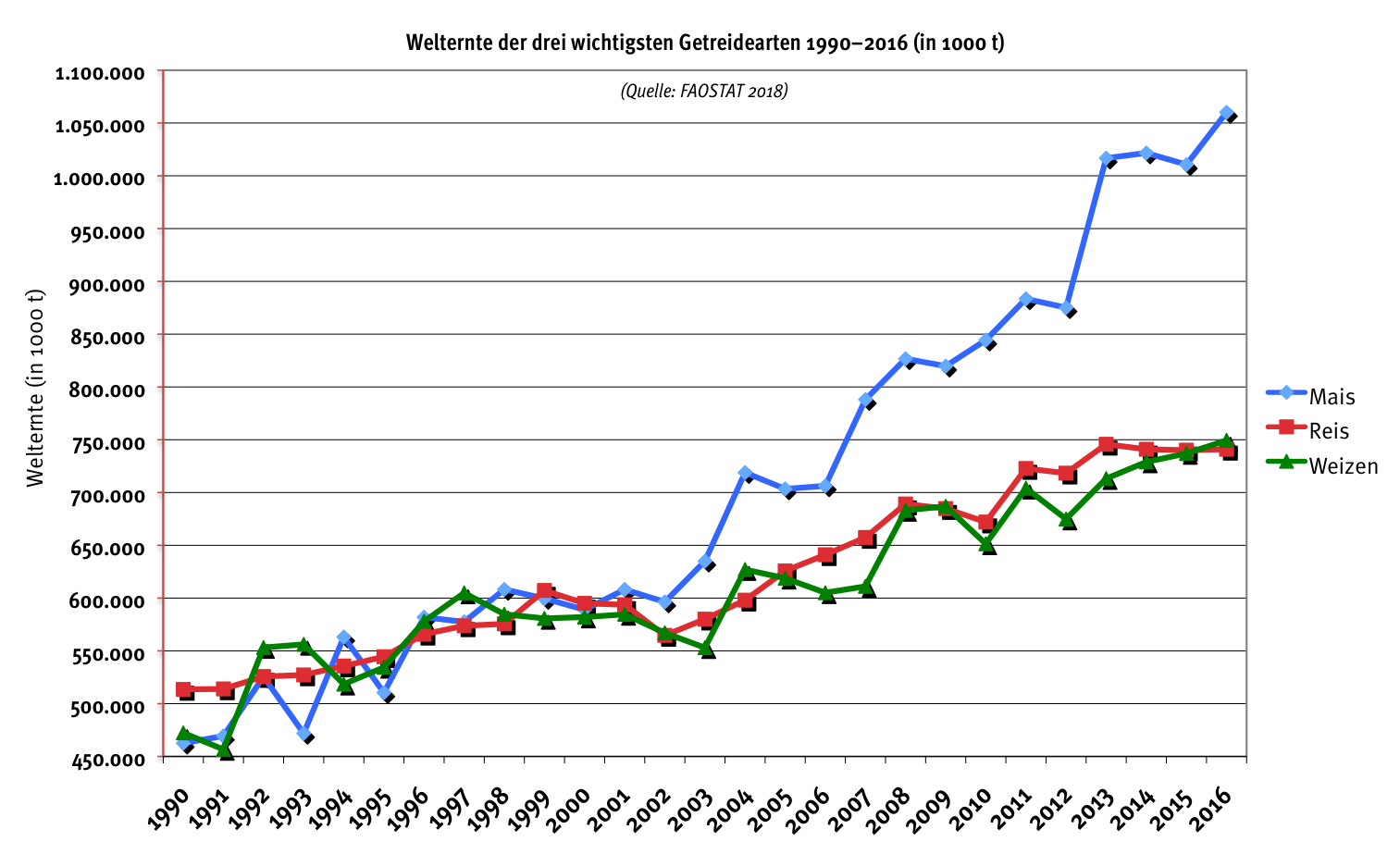 Diagram of the world production of maize, rice (paddy) and wheat from 1990–2016 (in 1000 t) Numbers from the FAO 2018